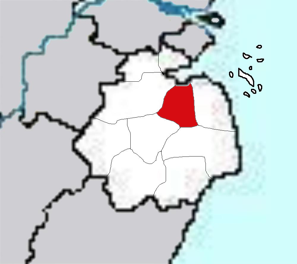 Maps of Zhejiang Province of China